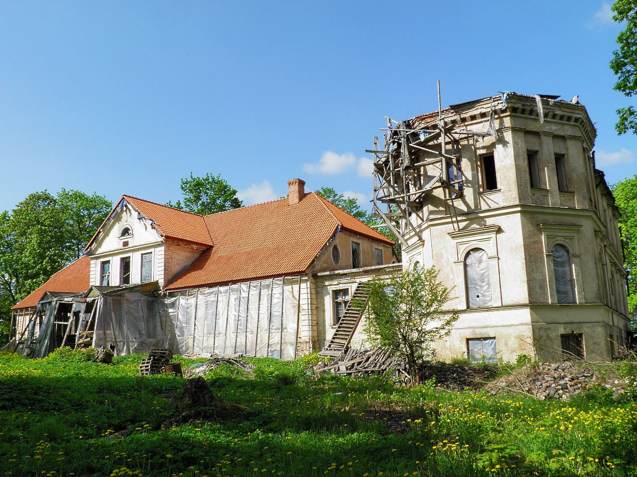 Weißensee (Baltmuiža) manorLatviešu: Baltmuižas kungu māja